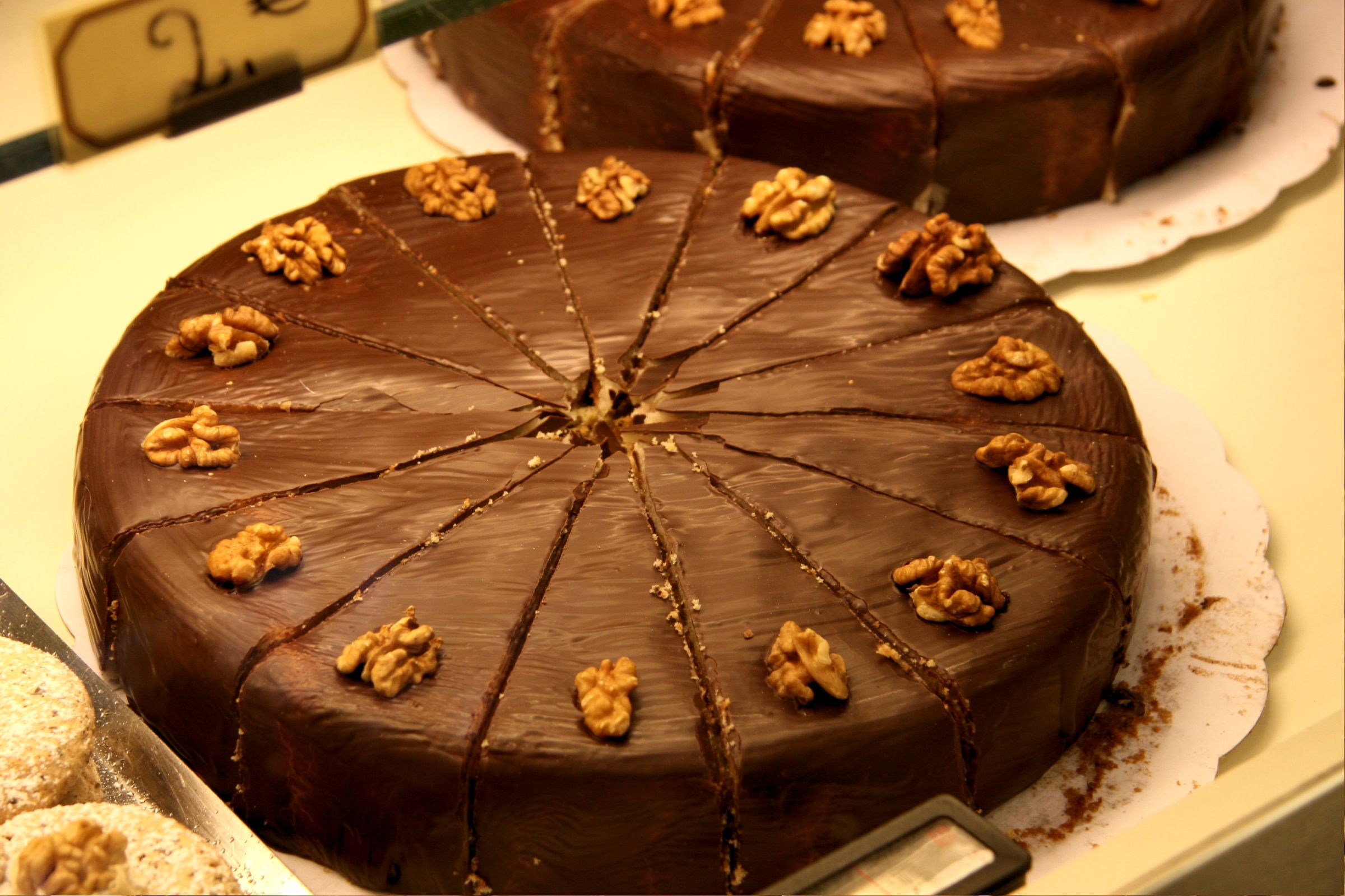 Walnut cake at the nut fair in Vianden, Luxembourg